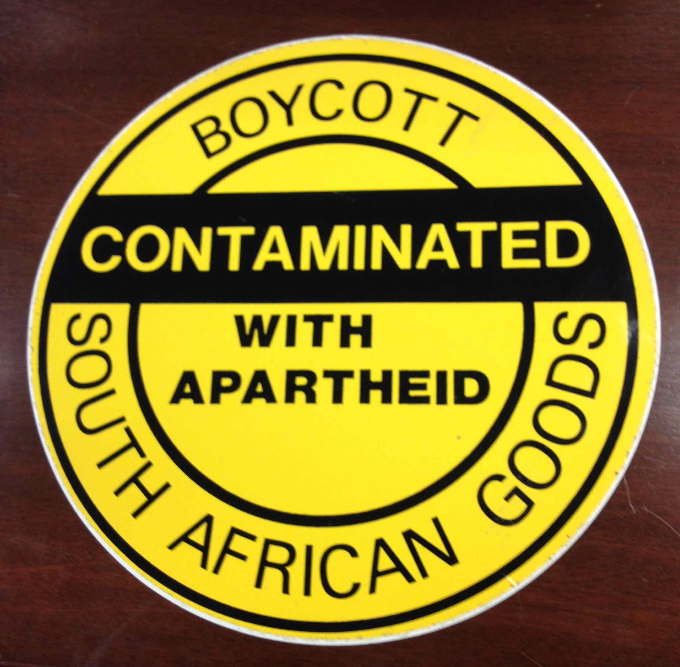 Boycott - Contaminated with apartheid - South African goods. Sticker / press on label, black print on yellow, about 12 inches in diameter. Acquired by the Library of Congress Africa Division in January 1986.